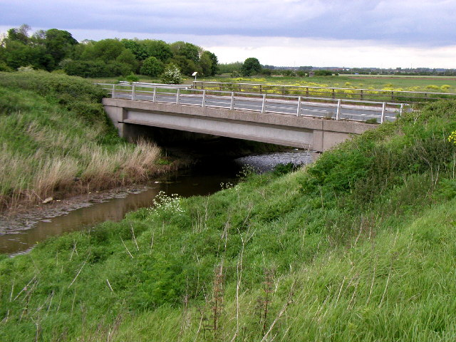 The bridge over Hedon Haven on the road from Hull to Paull, East Riding of Yorkshire, England.This bland, concrete bridge is situated at MR: TA171279 and the photograph is taken in a north easterly direction. It was built 15-20 years ago and replaced a lovely old lifting bridge structure. The bridge needed to be able to lift to allow small ships up the once navigable Hedon Haven. There are very ambitious and expensive plans (£17m+) to re-instate this as a navigable water up to Hedon. One day, perhaps, one day!